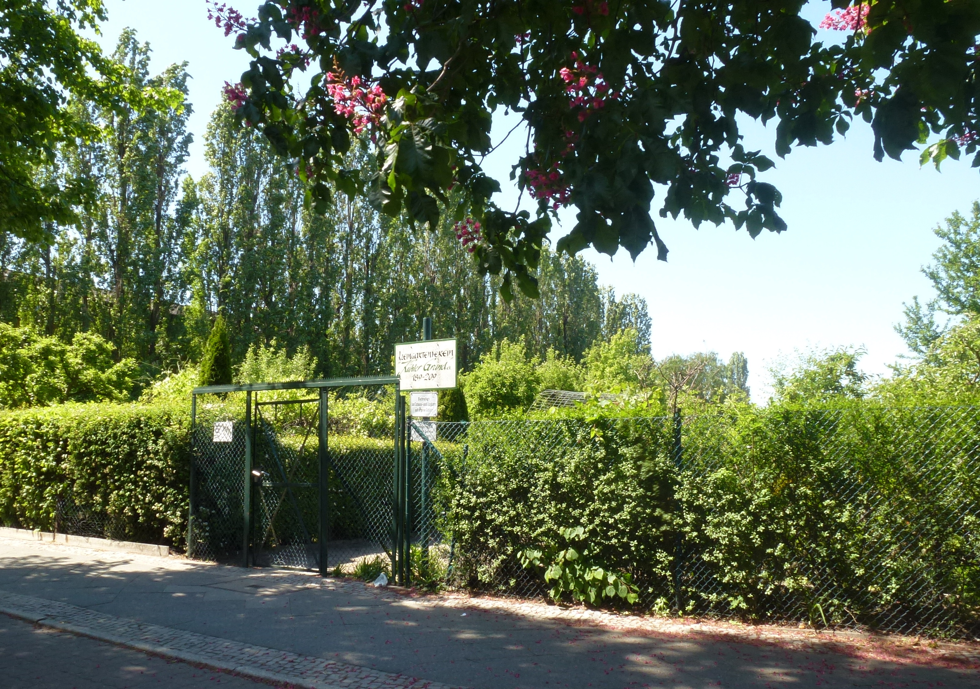 Berlin-Borsigwalde Eichborndamm Kolonie Kühler Grund